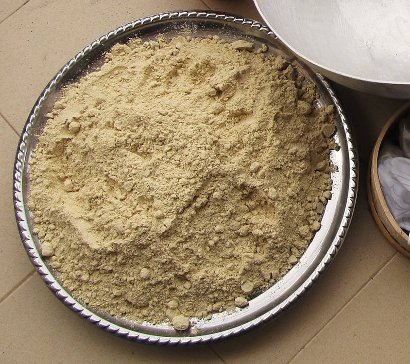 Large platter holding 4 kg of freshly ground millet flour ready to be hand-processed into millet flour pellets for use in millet couscous or in various popular millet porridges. A staple food of the arid Africa Sahel climatic band across Africa. Called soungouf in Wolof in Senegal; names vary between languages and countries.